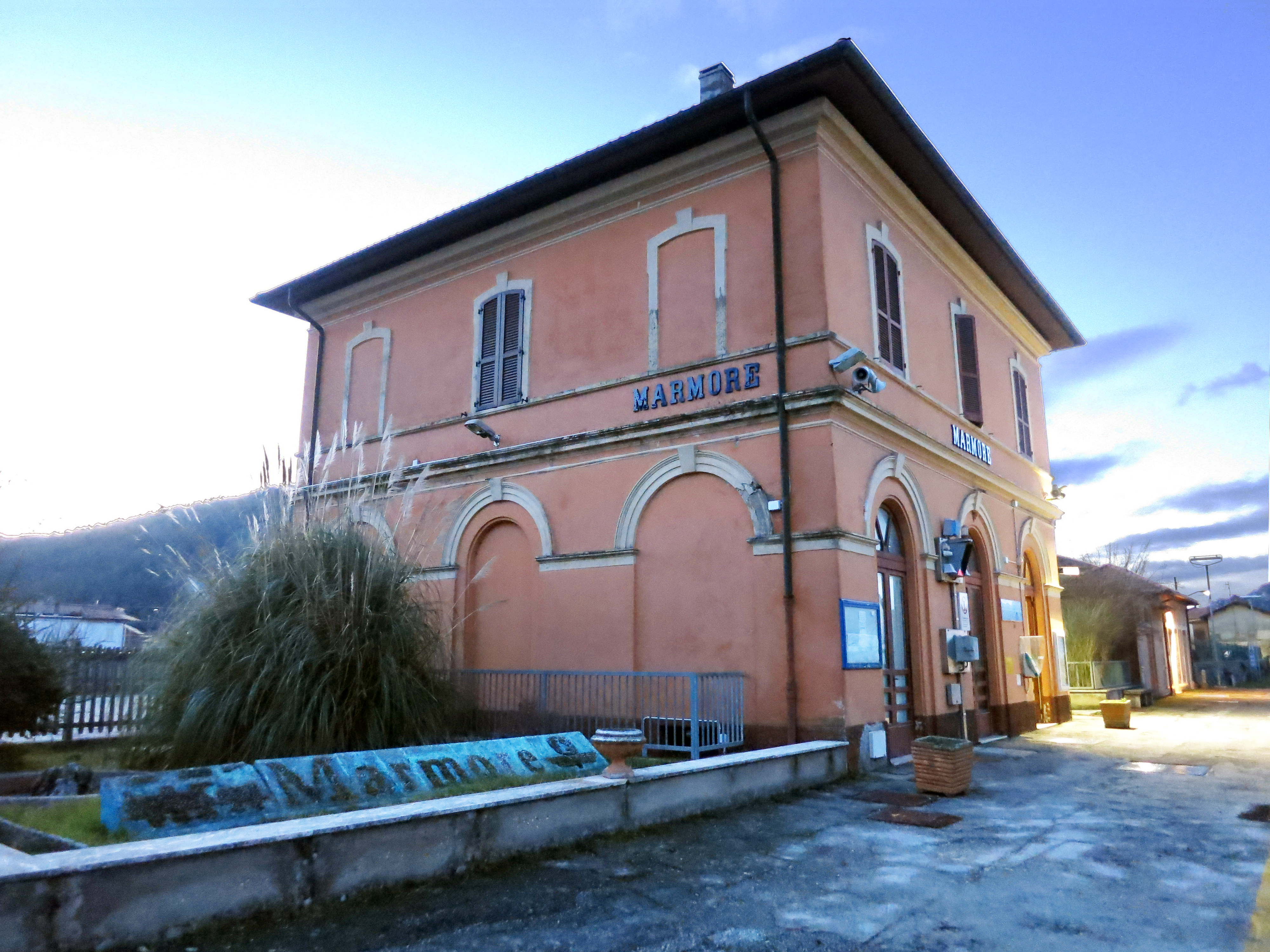 Marmore train station (province of Terni, Umbria, Italy), on the Terni-Rieti-L'Aquila-Sulmona line.